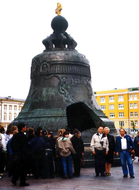 Tsar Kolokol, a huge bell at the Moscow Kremlin